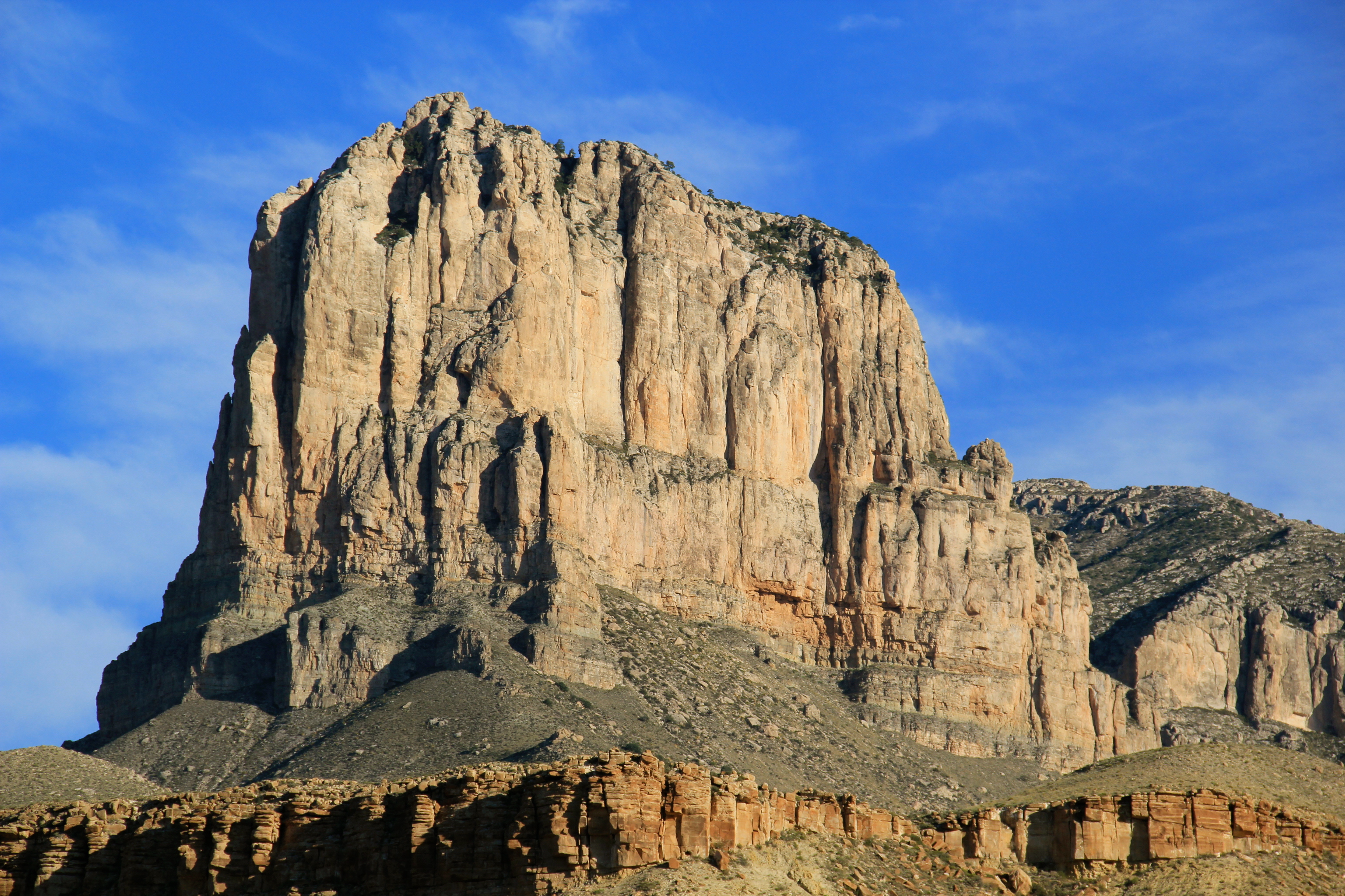 El Capitan in Guadalupe Mountains National Park, Texas